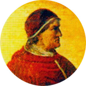 Portait of Pope Boniface IX in the Basilica of Saint Paul Outside the Walls, Rome